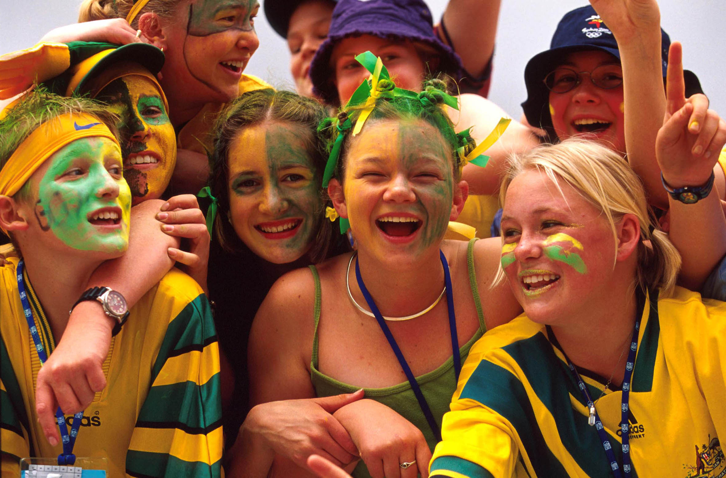 Image of excited school children in the audience cheering and supporting Australia at the 2000 Sydney Paralympic Games: seen in front are a group of young fans dressed up in green and gold face makeup, zinc, hair dye and clothing.